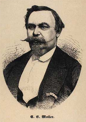 Danish composer and conductor: Carl Christian Møller